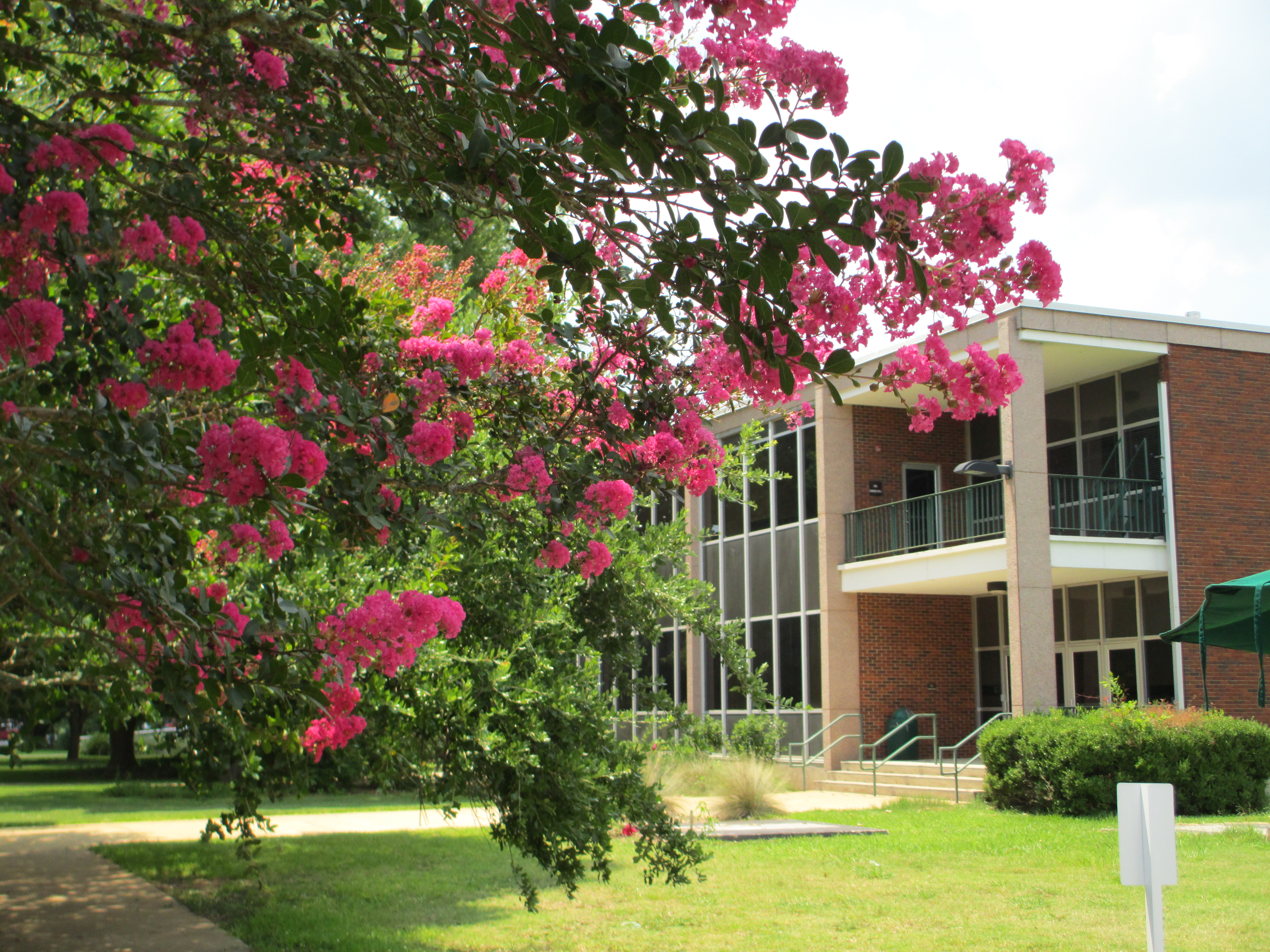 Crepe myrtle at the southeast corner of the Science Building on the LSUA campus, July 2013